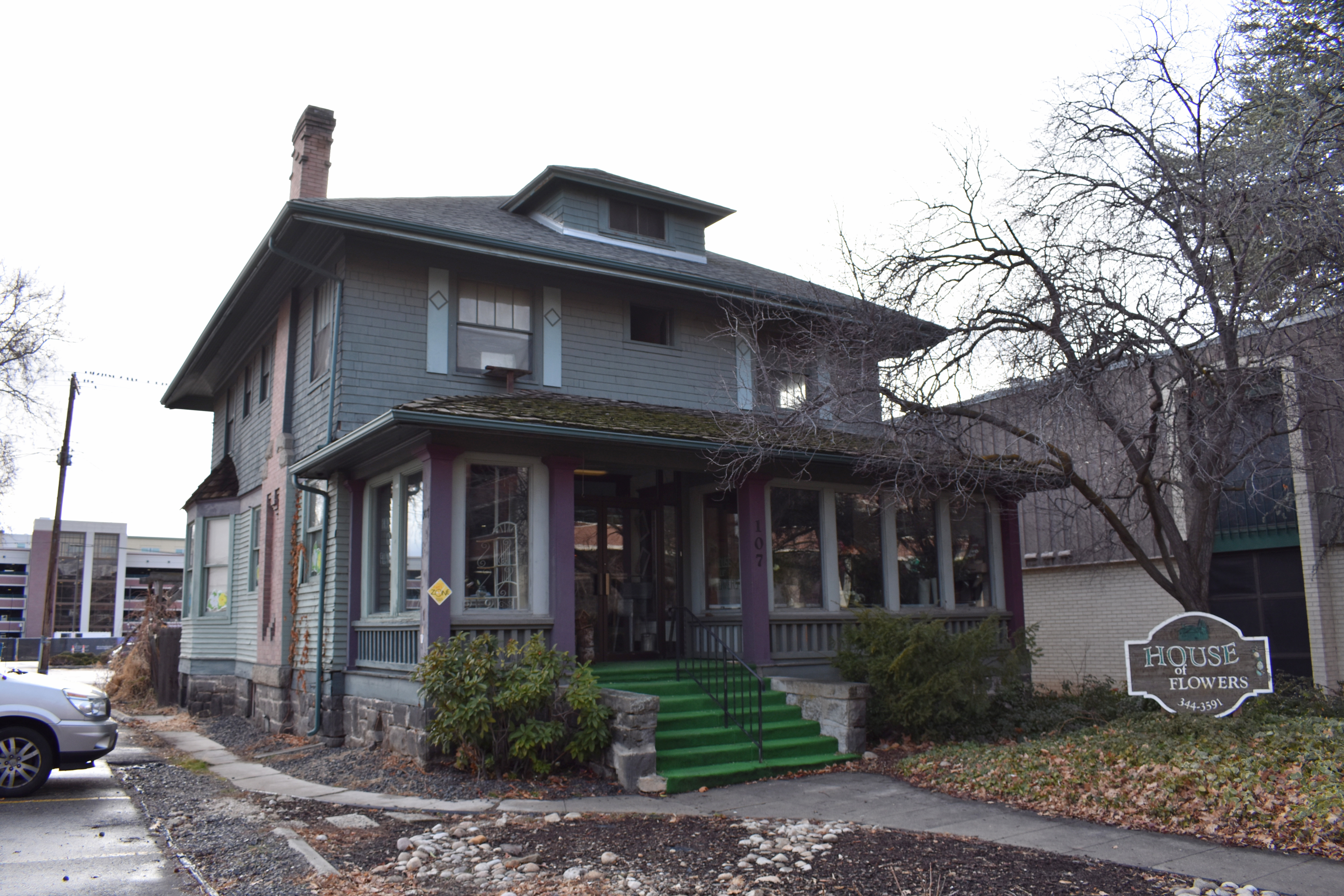 The C. C. Cavanah House (1906) in Boise, Idaho, is listed on the National Register of Historic Places.